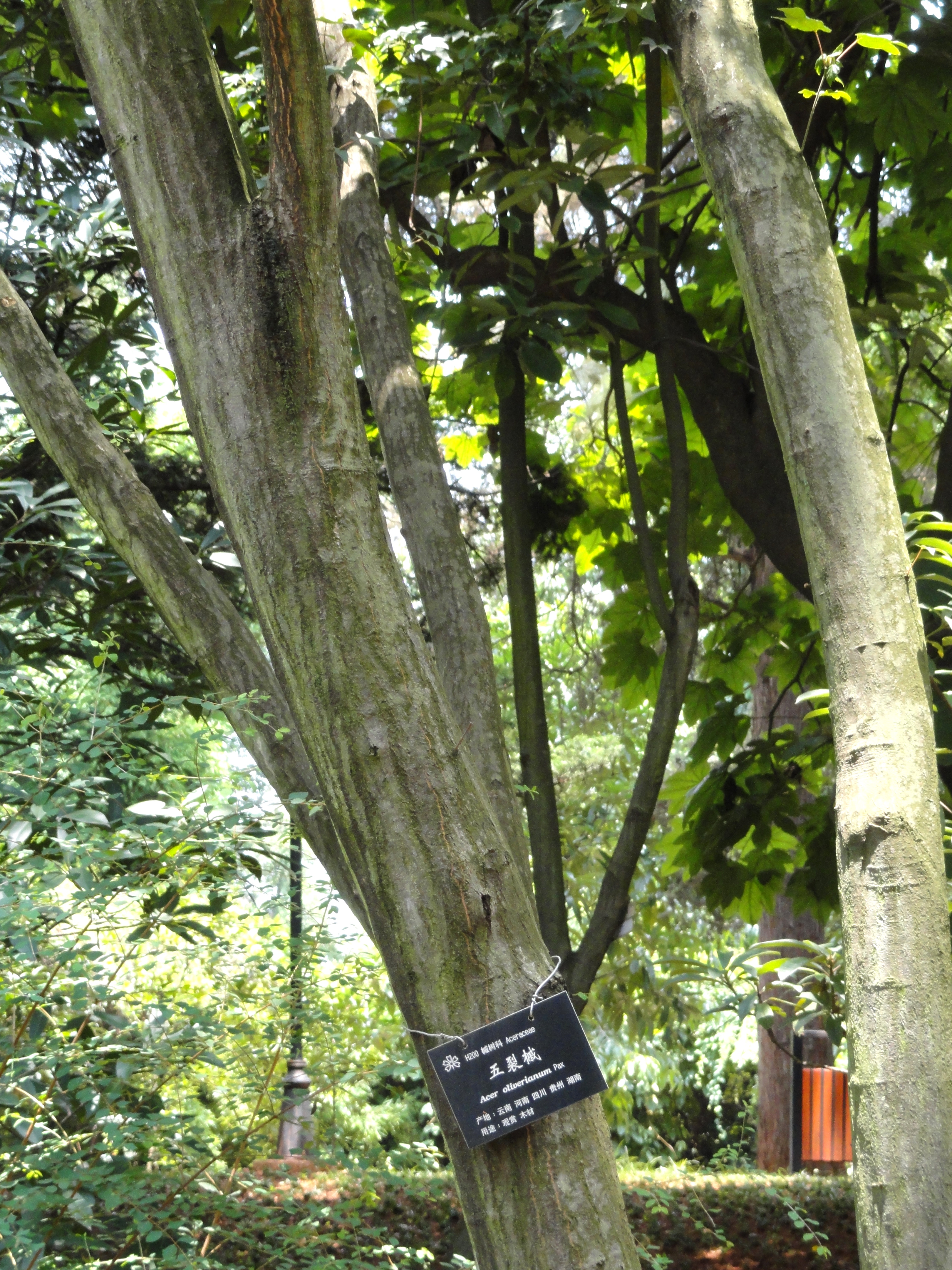 Plant specimen in the Kunming Botanical Garden, Kunming, Yunnan, China.